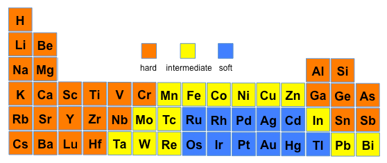 Periodic table showing hard and soft acids